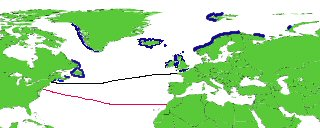 Range map for Atlantic Puffin. Blue = Breeding range Black = Southern limit of summer range Red = Southern limit of winter range Based on: Boag, David (1995) The Puffin, Blandford ISBN: 0-7137-2596-6. Base map is File:BlankMap-World8.svg More accurate southern limit of summer range.